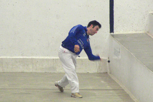 Pedro, during the final match of the 2009/10 Circuit Bancaixa